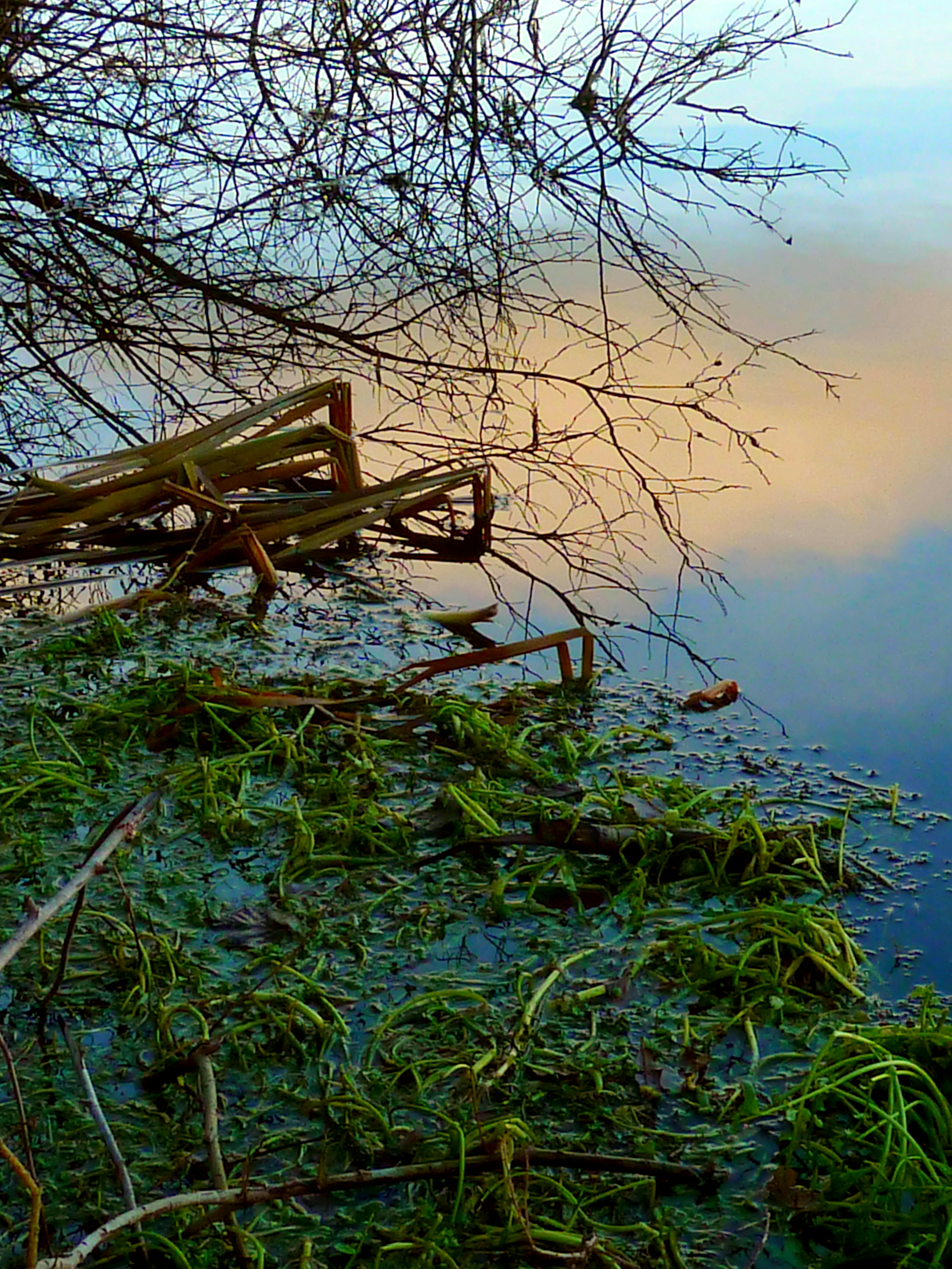 Hay-a-Park nature reserve, adjacent to the east side of Knaresborough, North Yorkshire, England. This area has been designated a Site of Special Scientific Interest (SSSI. The site has no main entrance, no visitor facilities and no car park. It has a large lake with a few smaller lakes at the south end of the site, some woodland, and some fields maintained by grazing. Showing the area around the large lake. This image features some items floating on the lake, and some of the branches reflected in it.